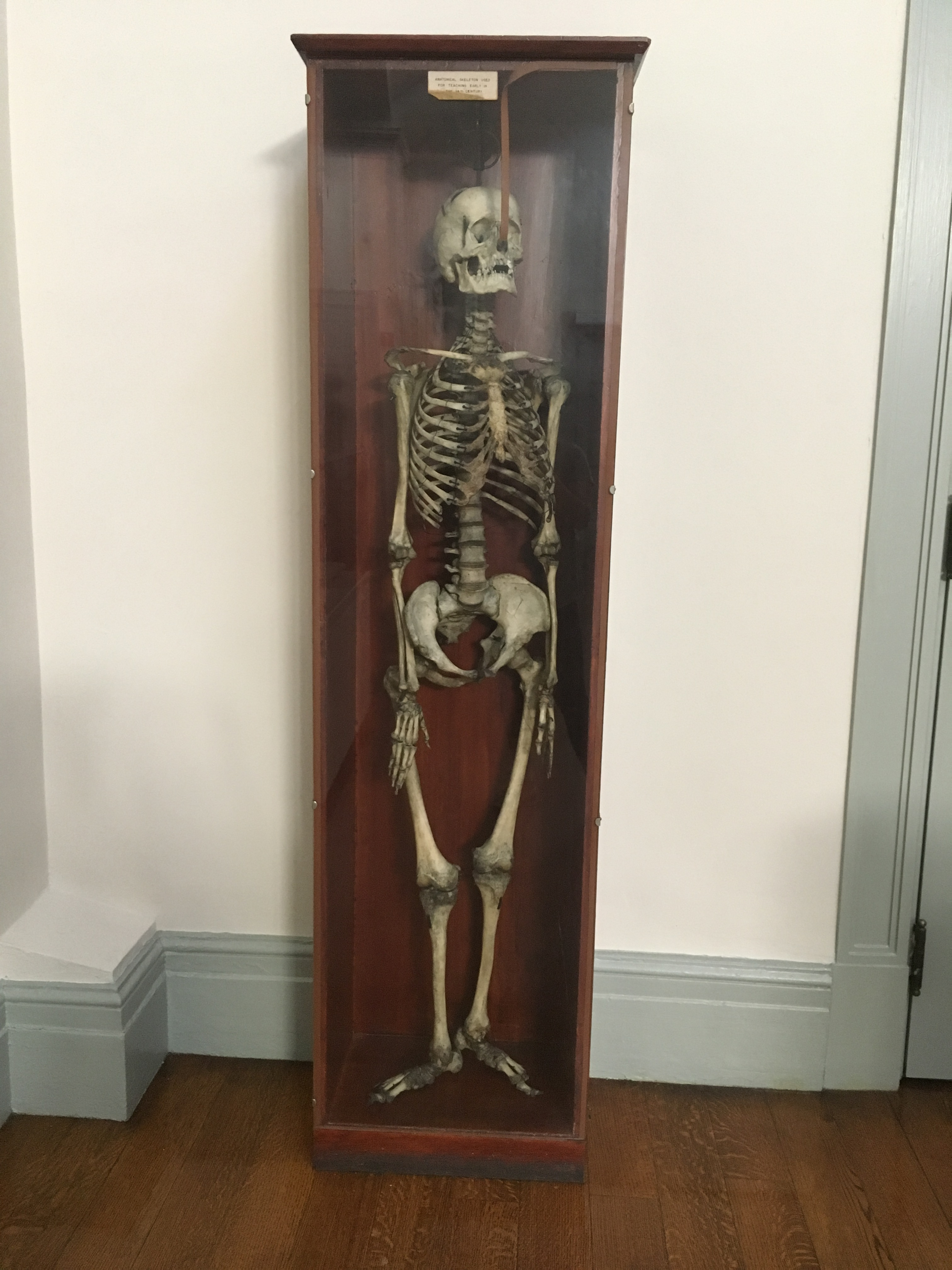 The skeleton in the Ether Dome. Similar skeletons would have been used for instruction in medical schools during the 19th century.